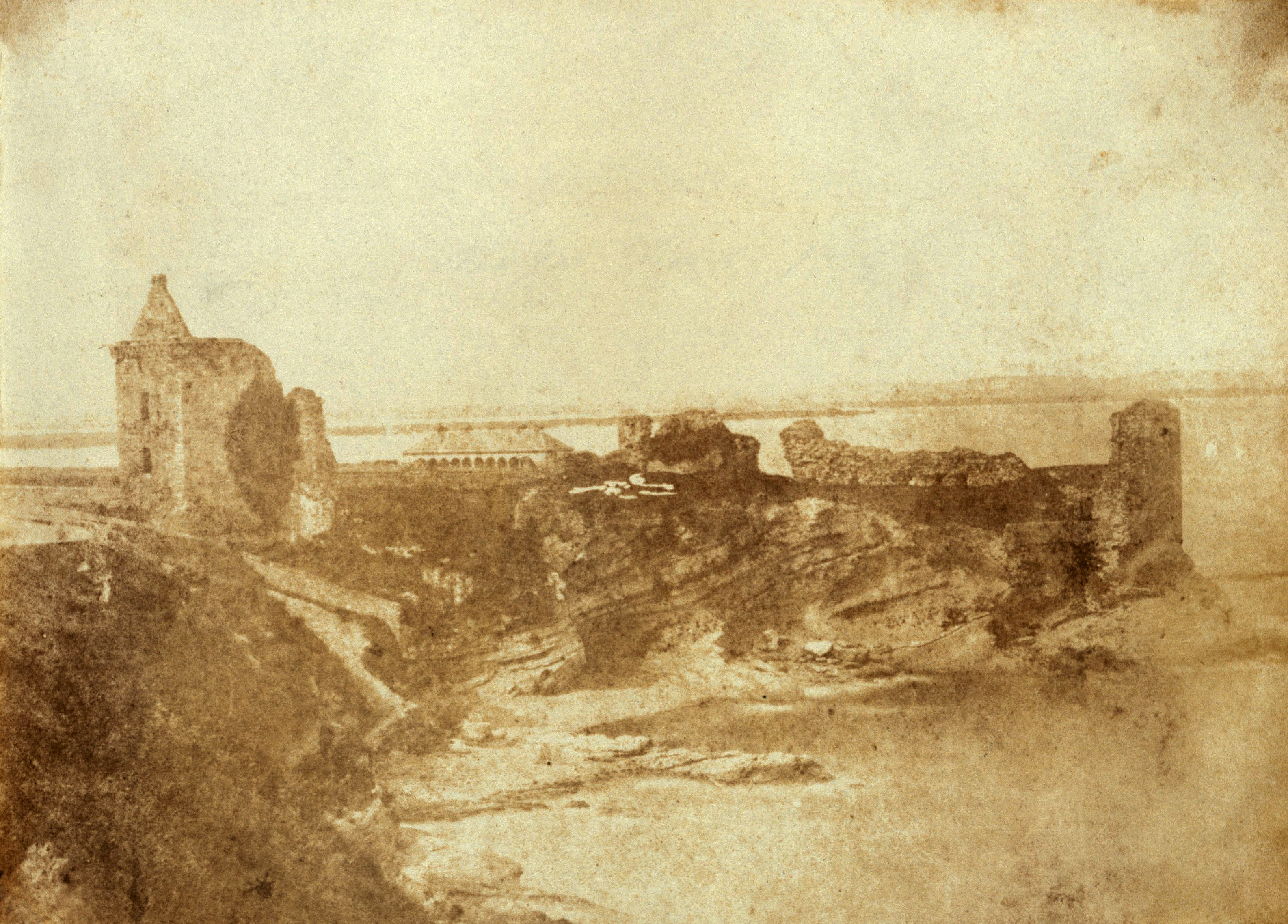 Print of St. Andrews Castle in Fife, Scotland. From J. Paul Getty Museum.